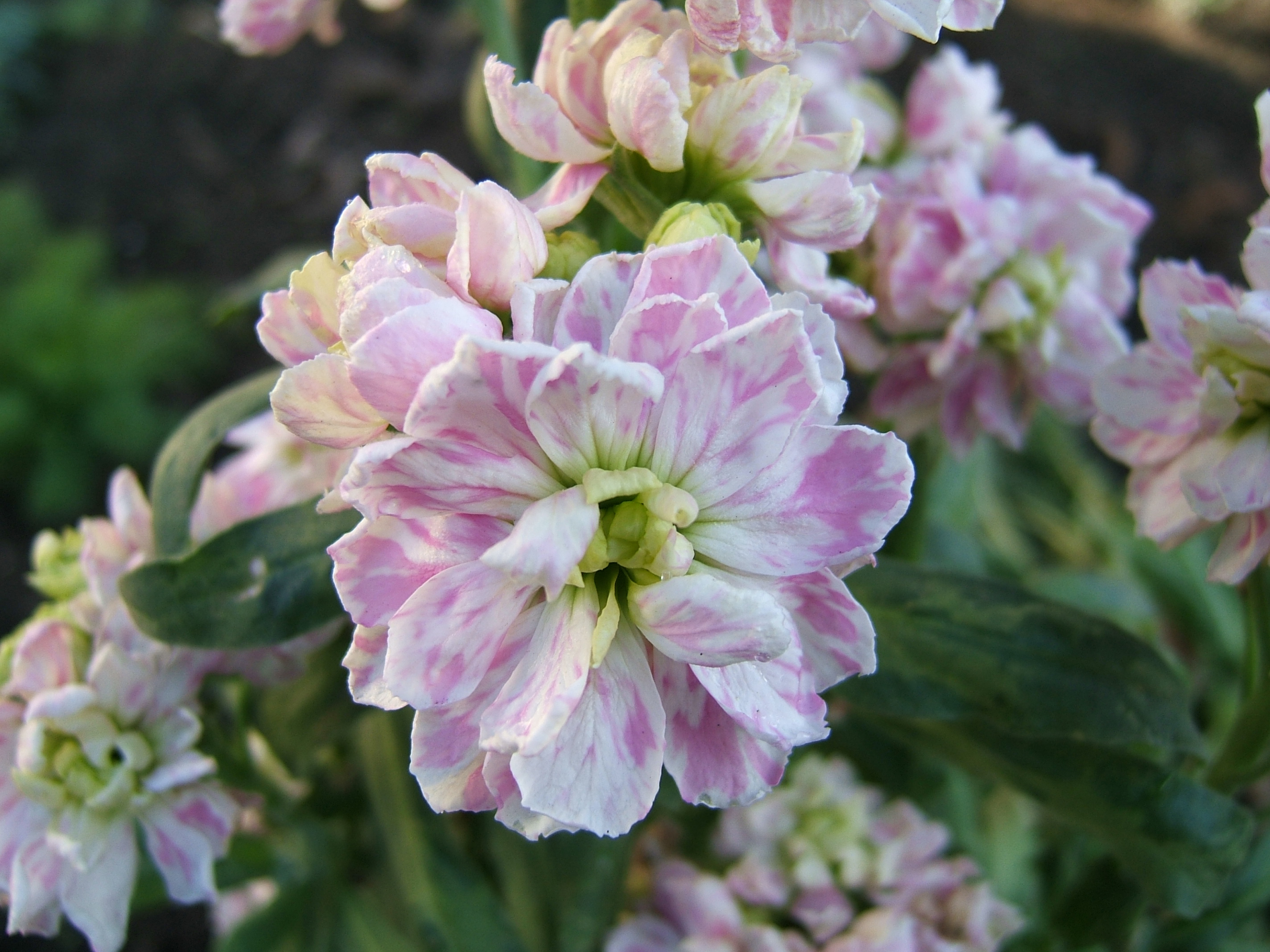 Plants growing in a half shady place at 240 m in Rems Valley, a warm viniculture region in Baden Württemberg, Germany.